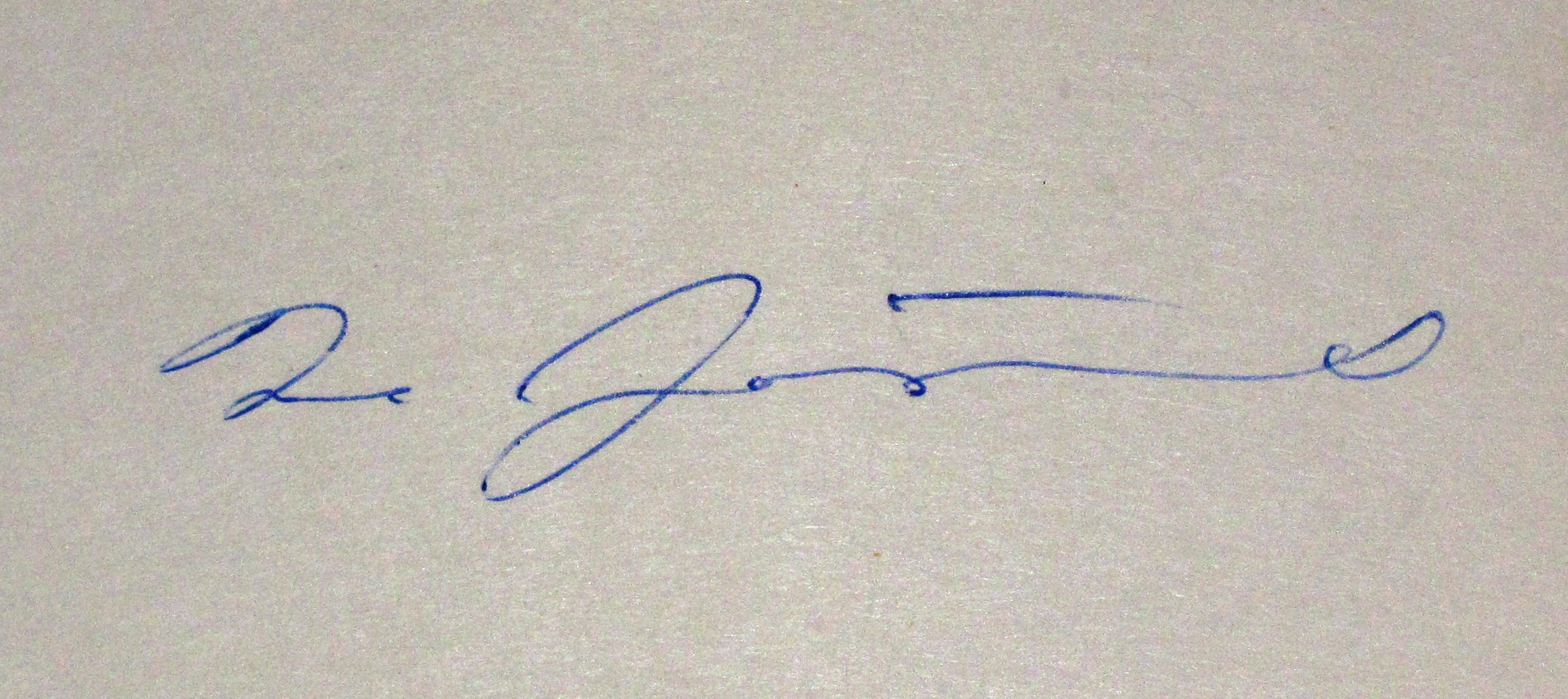 Autograph of Iva Janžurová, Czech actress (1984)